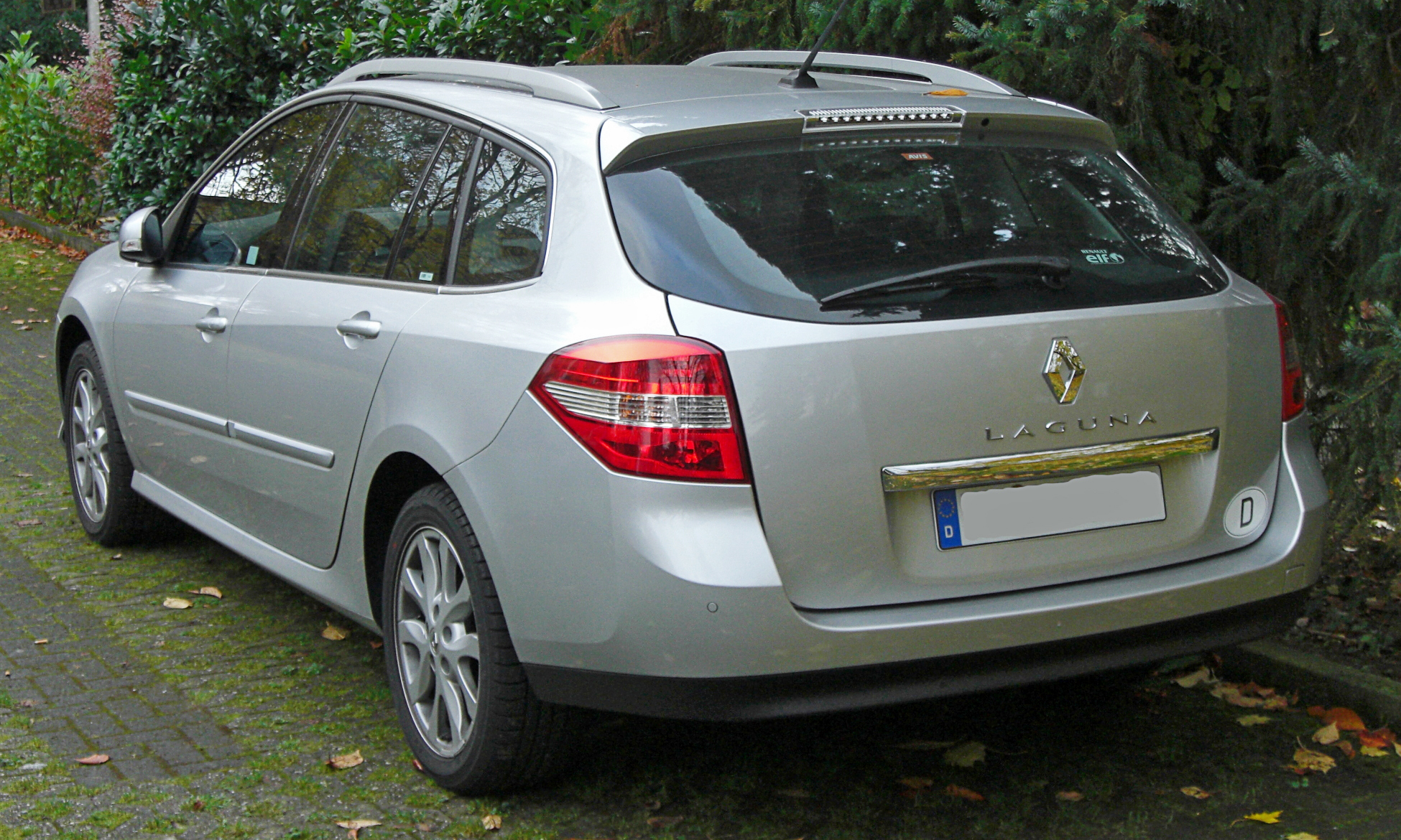 Description: Renault Laguna III Grandtour Source: Matthias Other Version(s)